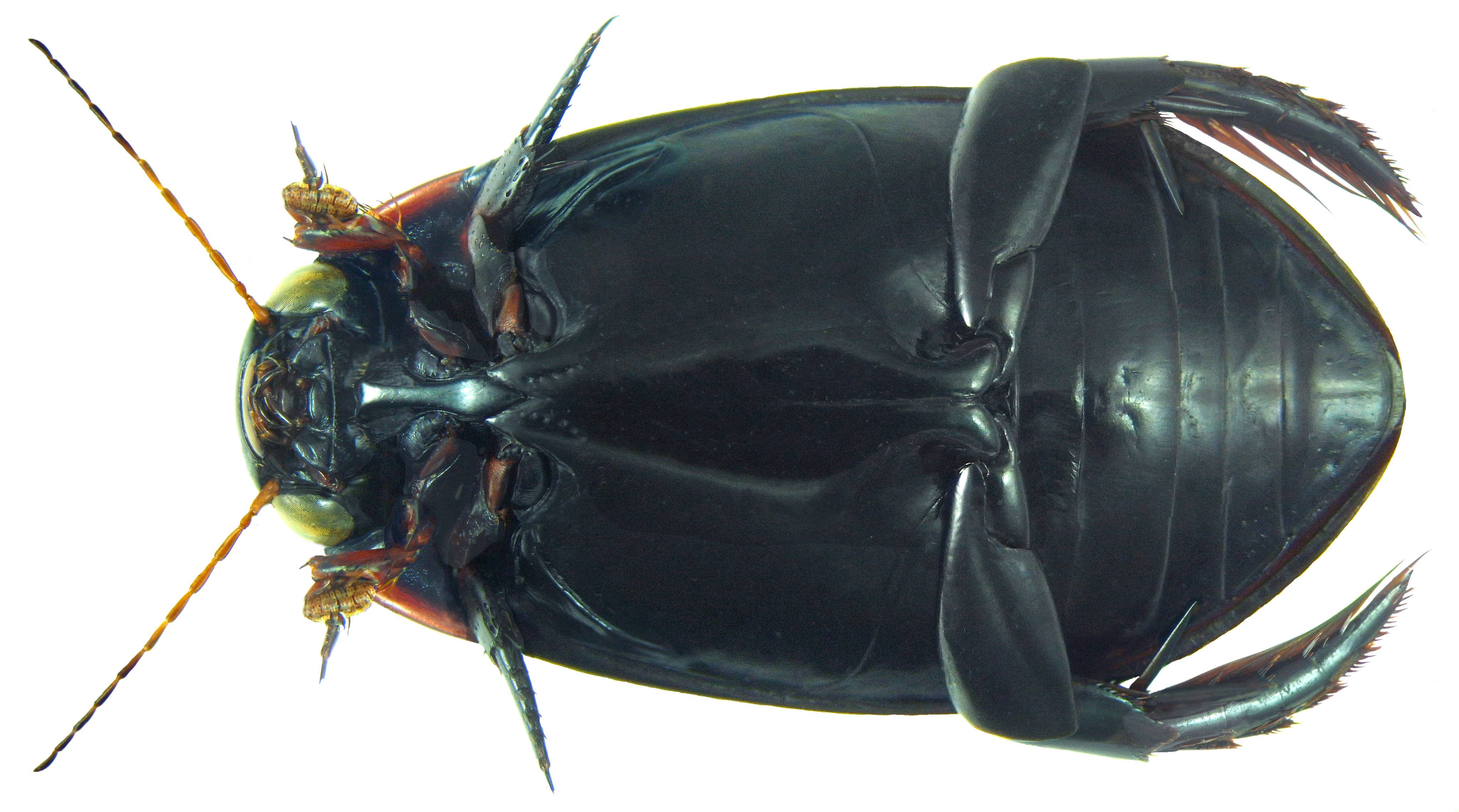 Ventral view of Cybister sugillatus Familie: Dytiscide Groesse: 21 mm Fundort: Laos, Hua Pan-Prov. , Phu Phan Mt., 1500-1900 m leg. M.Brancucci, 7.V.-3.VI.2007; det. Hendrich, 2011 Photo: U.Schmidt, 2012